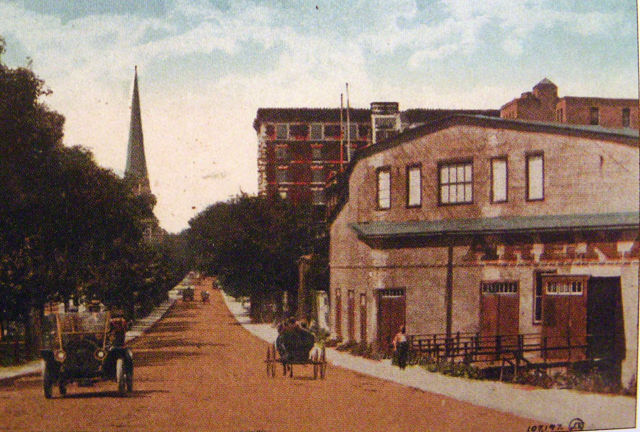 View of Laurier Avenue, looking west from Laurier Bridge, Ottawa, Canada, 1910. Ottawa Arena on right.